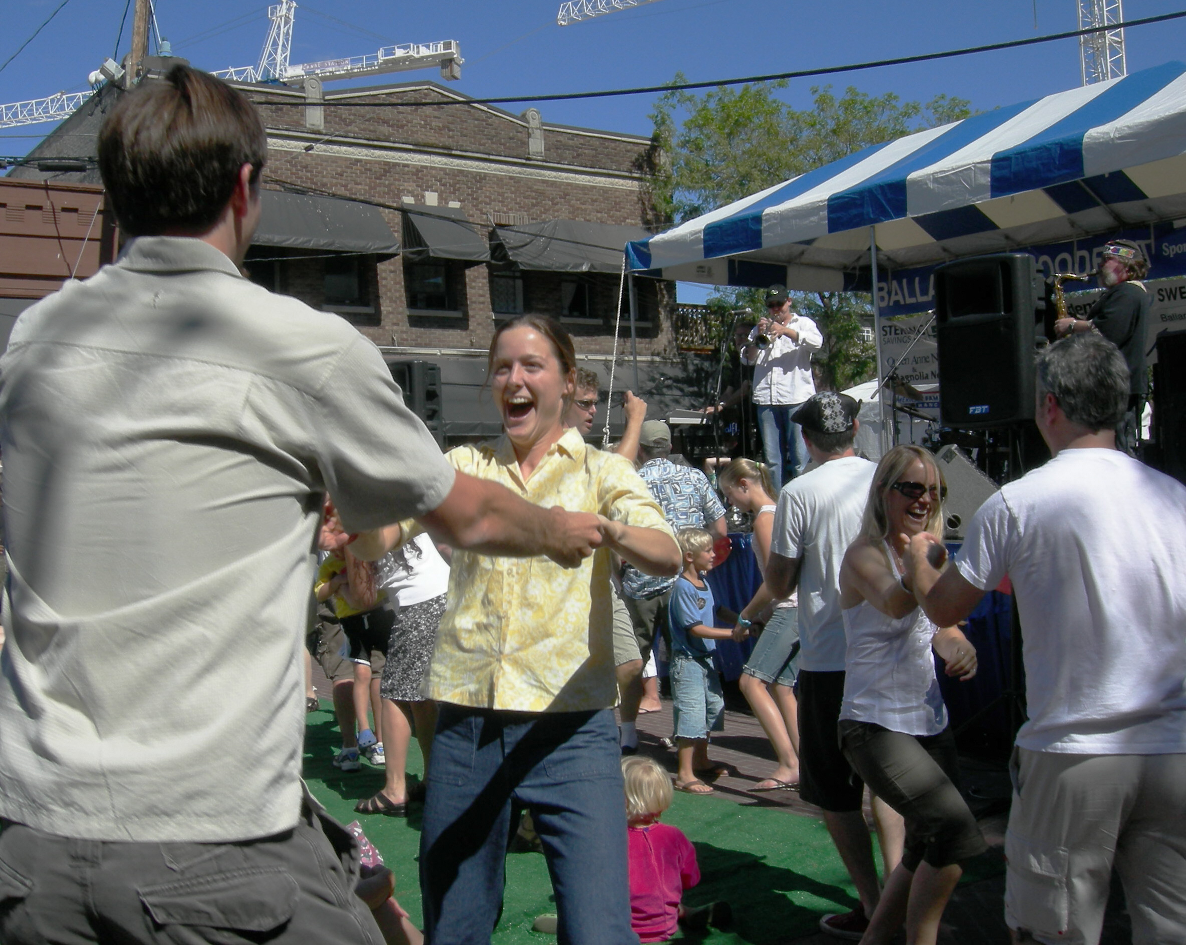 Dancing (probably a polka) at the Ballard Seafood Fest (in the Ballard neighborhood of Seattle, Washington); dancing to Texas band Brave Combo.